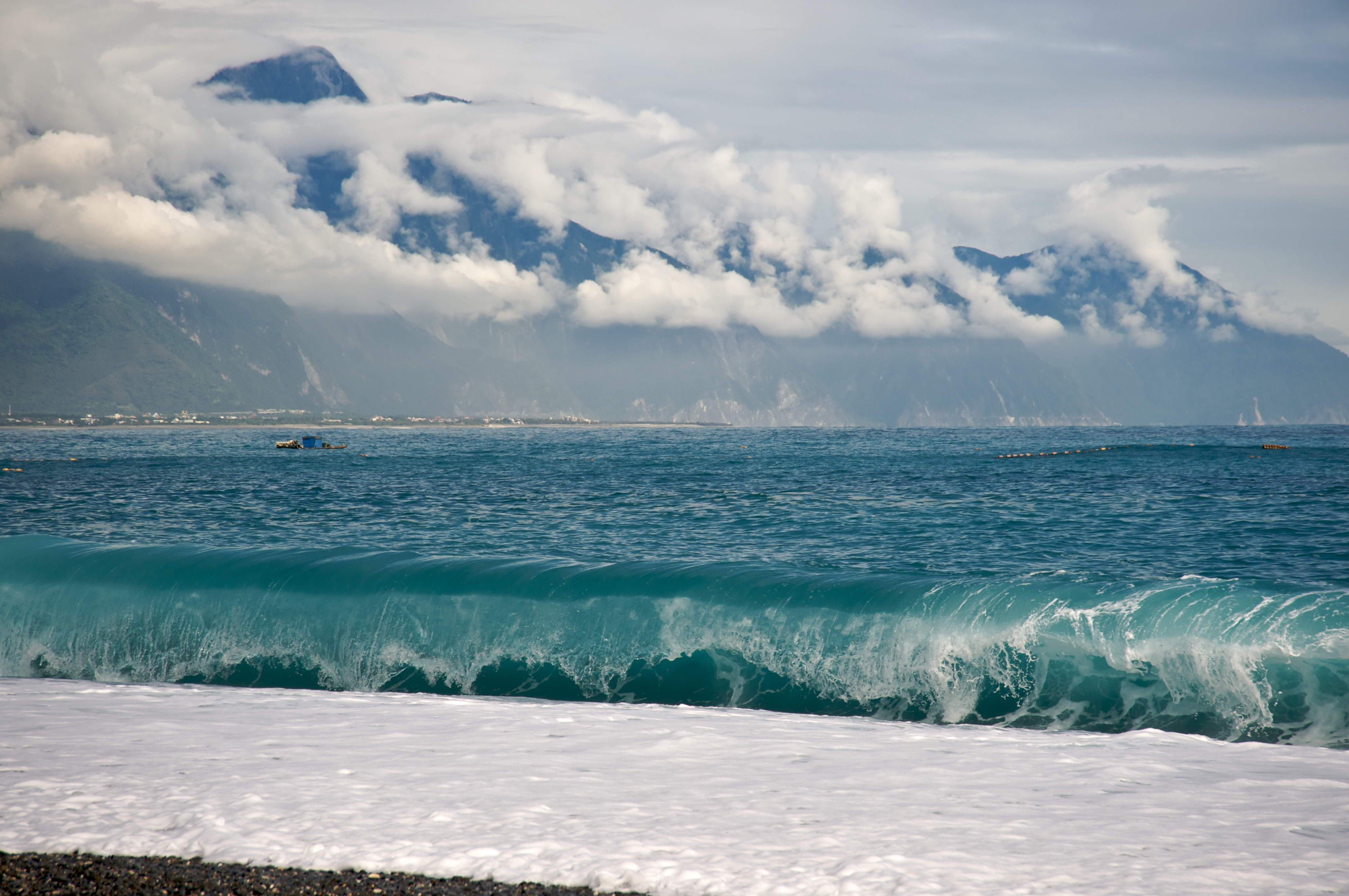 CiSingTan Bay with Fixed-net fishing operations close to shore, and the Central Mountain Range in the background, in Hualien County in Taiwan